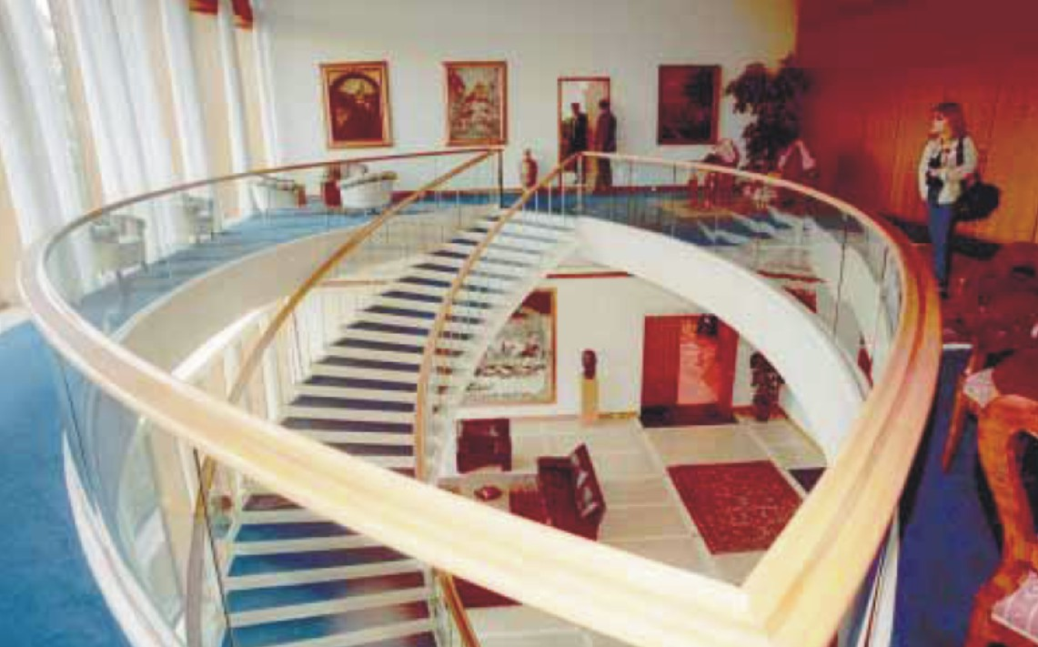 Inside of the Presidential palace, Zagreb.